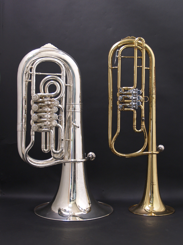 Flicorno Basso and Tenor